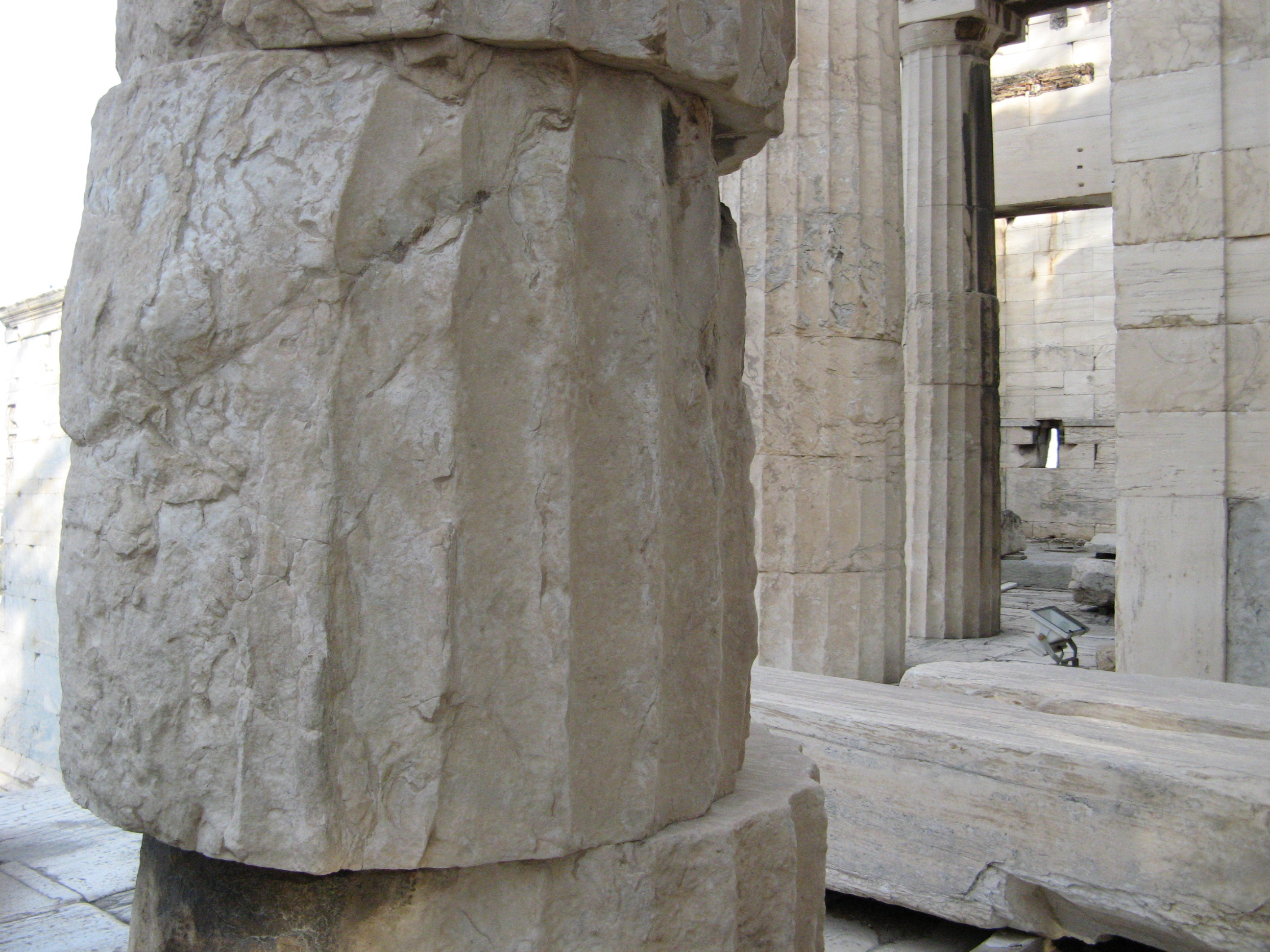 Interesting looking column within the Acropolis of Athens